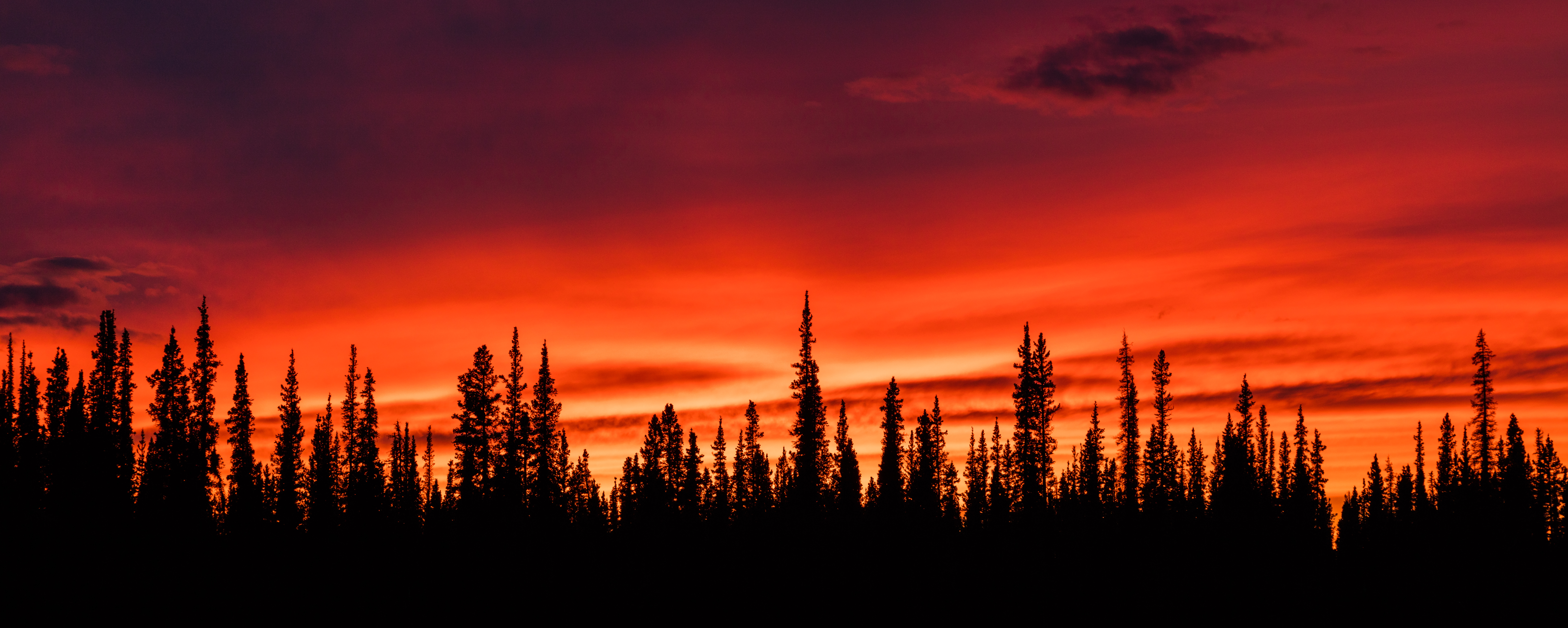 Sunset in the woods in Tok, Alaska, United States.